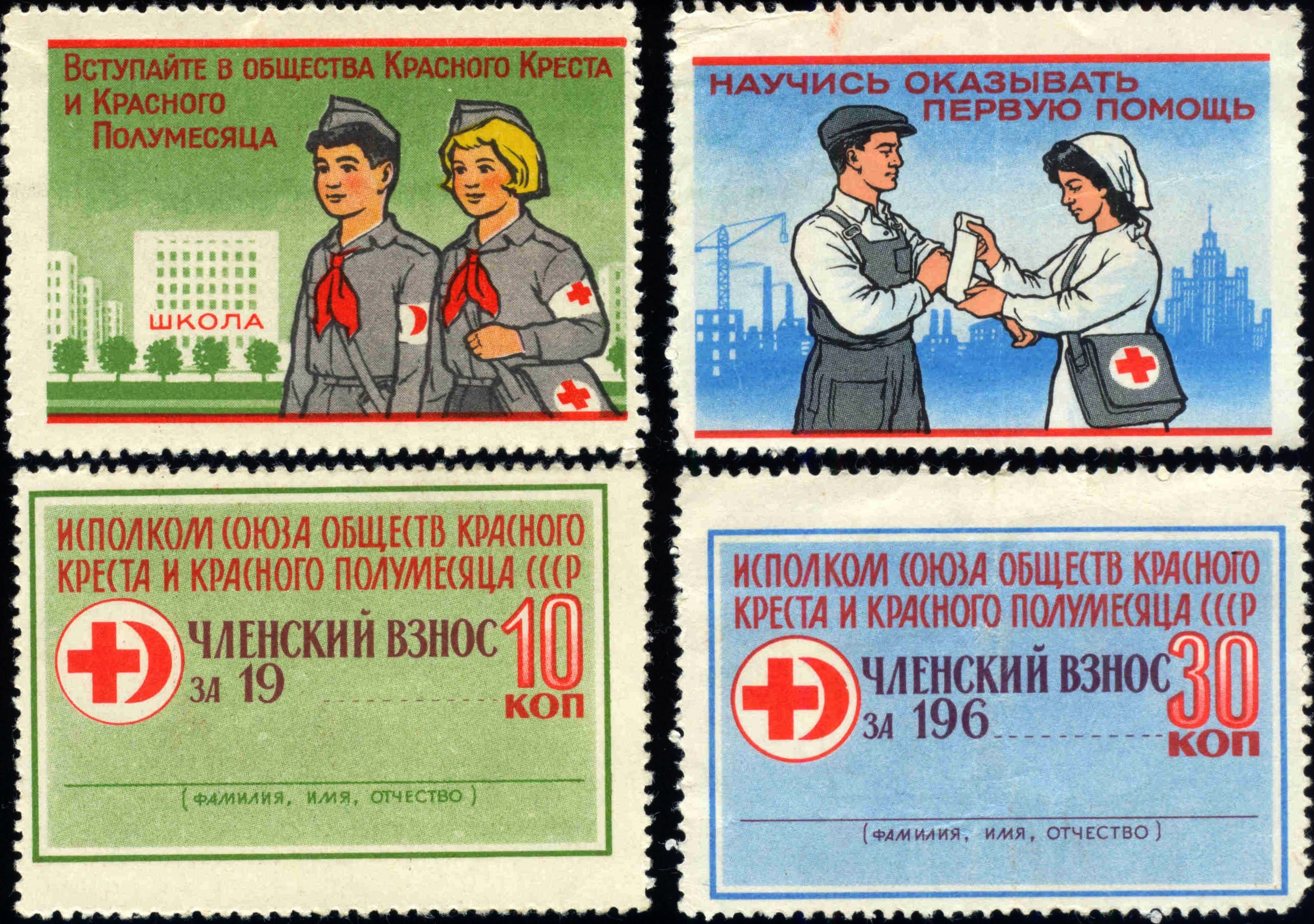 USSR Red Cross and Red Crescent Society revenue stamps, 10 and 30 kopeks, 1970-ies.